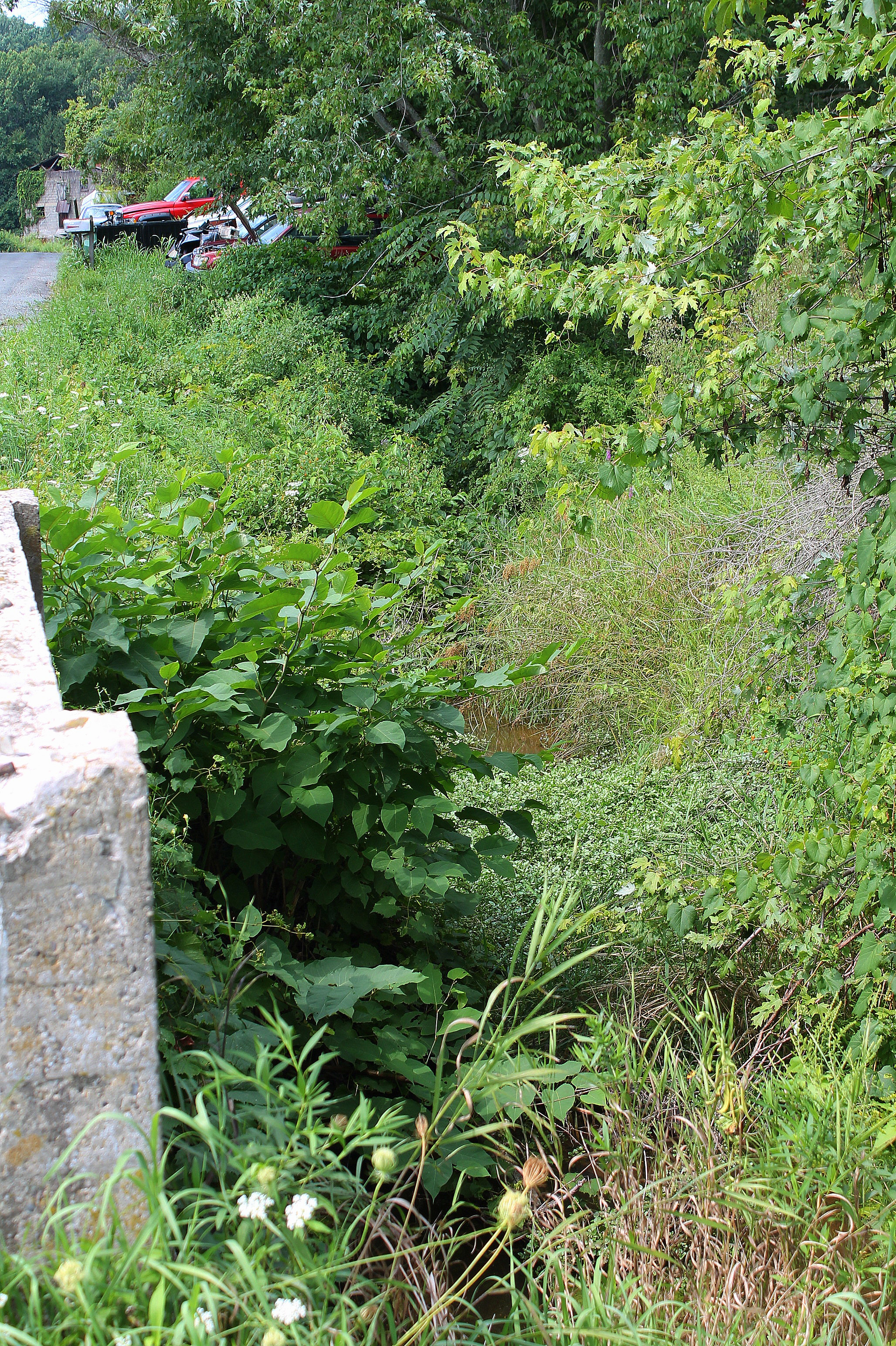 Jackson Creek, a tributary of the Susquehanna River in Wyoming County, Pennsylvania, looking upstream, almost completely obscured by vegetation.